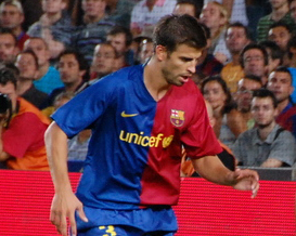 A photo of Gerard Pique, FC Barcelona player, during Joan Gamper trophy 2008